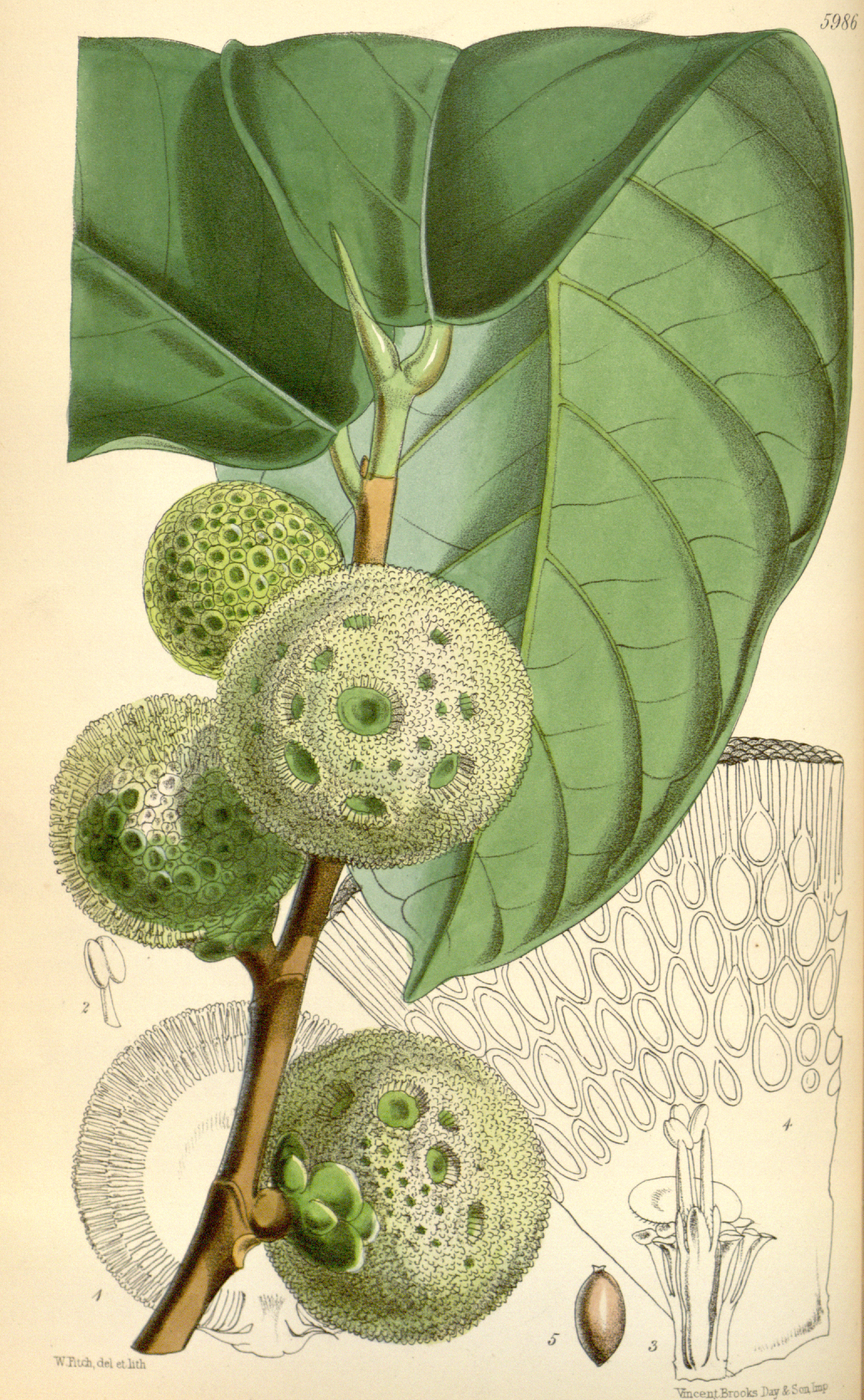 Illustration of Treculia africana